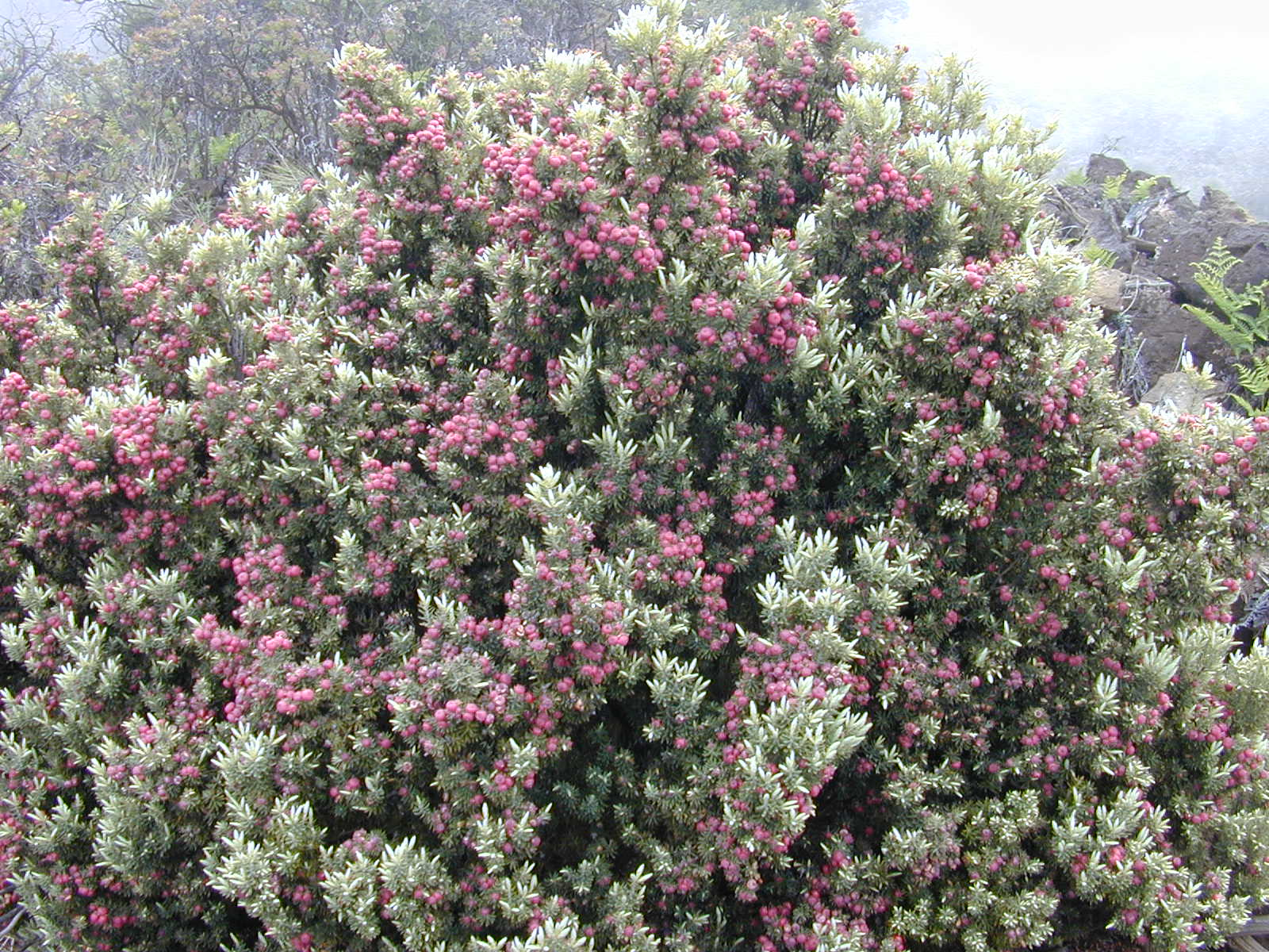 Leptecophylla tameiameiae (fruiting habit). Location: Maui, Polipoli